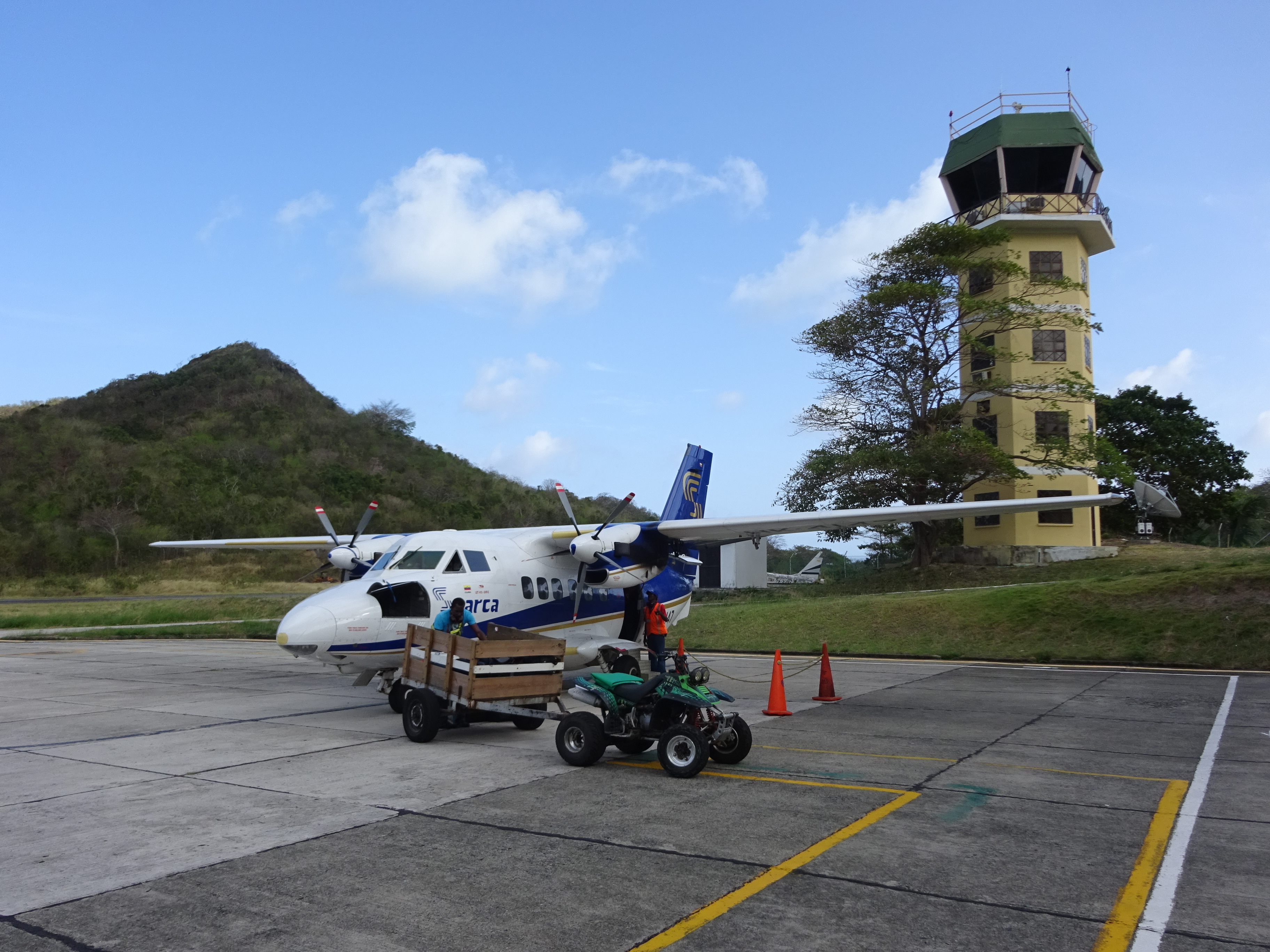 A Searca LET-410 at El Embrujo airport in Providencia Island